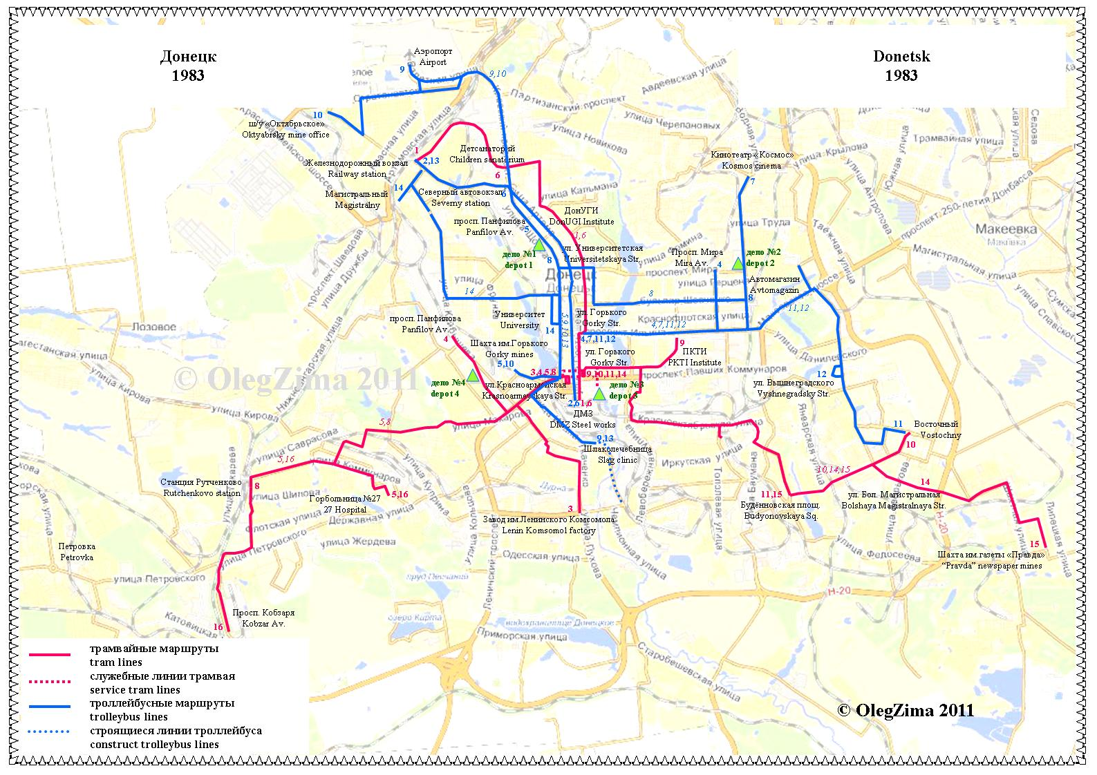 Transport map of Donetsk city at 1983